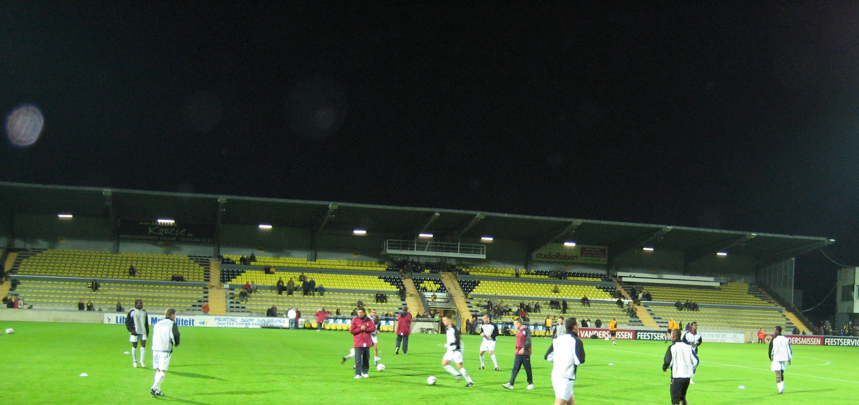 Herman Vanderpoortenstadium (Lier)